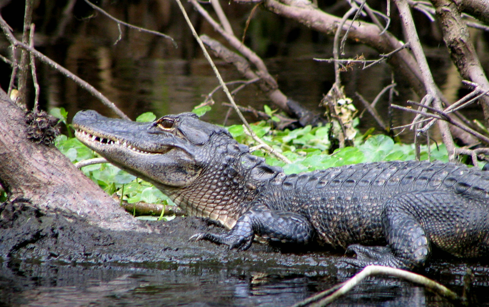 An Alligator on the Wekiwa Springs Run in Wekiwa Springs State Park. Taken by User:Mwanner, 21 Feb, 2006.